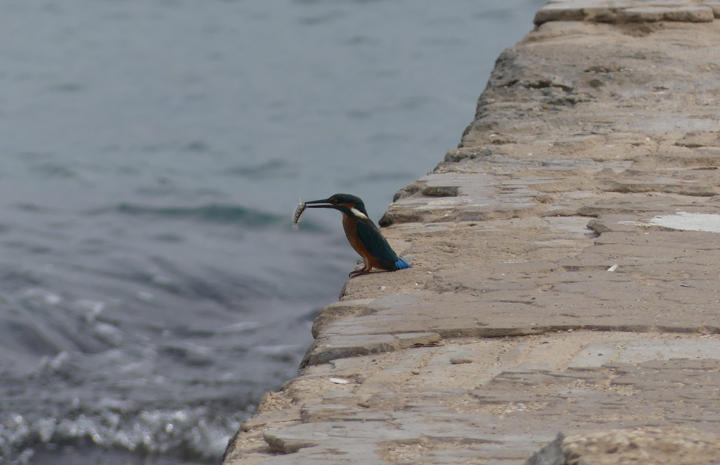 A kingfisher bird swallowing a small fish near the historical Burj Al Mobarakee tower in Tyre/Sour, Southern Lebanon.